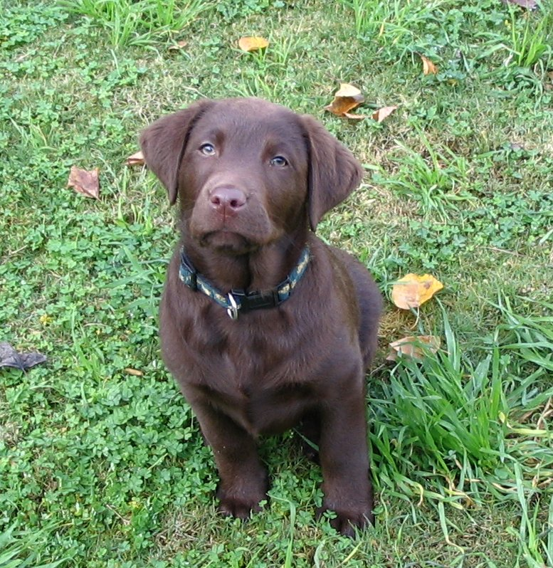 Female 10 week old pedigree chocolate Labrador Retriever.